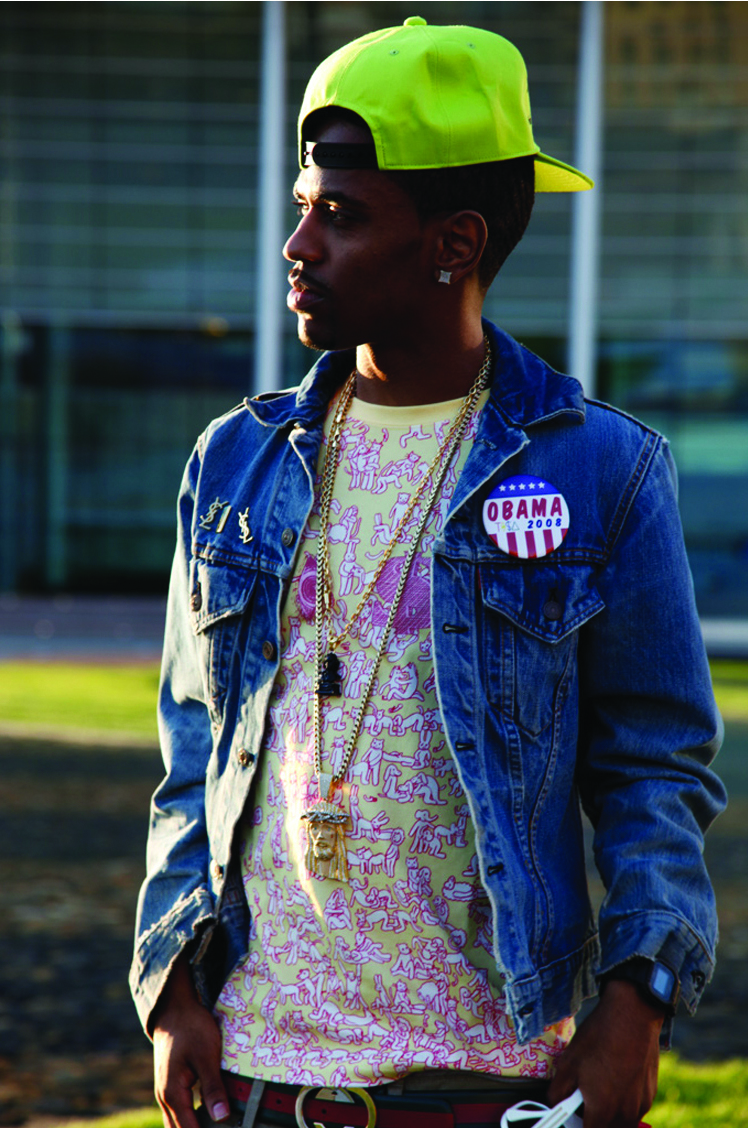 Press photo of American rapper Big Sean in November 2009.